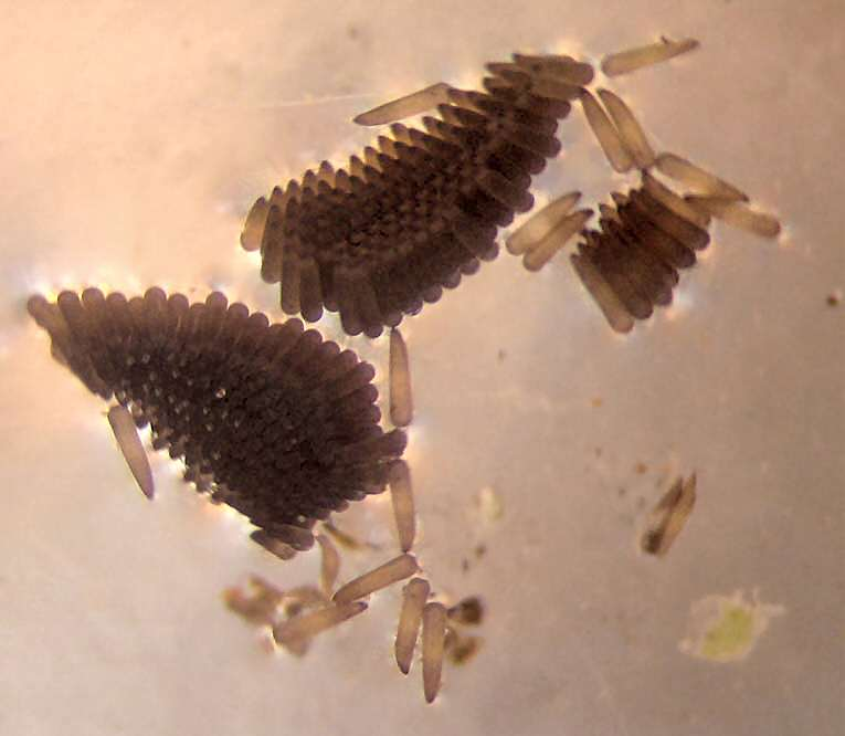 Assembly of eggs of a Culex species. Location: West of Munich, Germany, near city border, beginning of June in 2007. The pond was newly created 2 weeks before. Image was taken through the okkular of a binocular with a digital camera. During transfer the structure broke up in two large parts and som individual eggs, the latter laying now flat on the water surface.